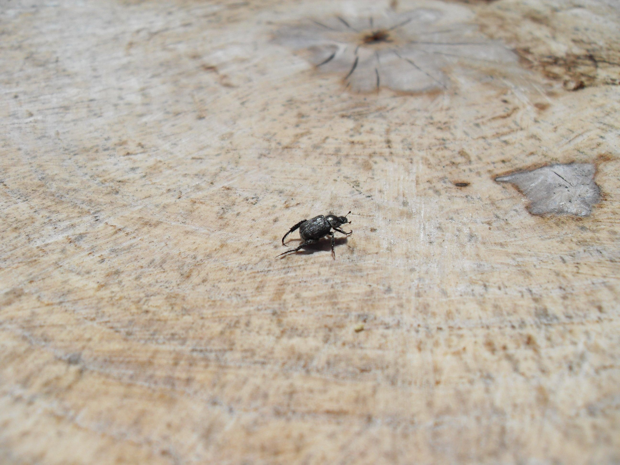 Image title: Small black beetle on tree stump Image from Public domain images website